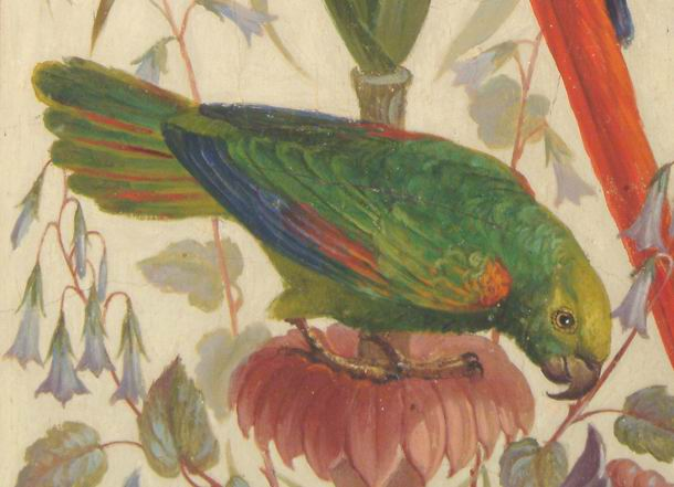 Yellow-headed Parrot - Amazona oratrix